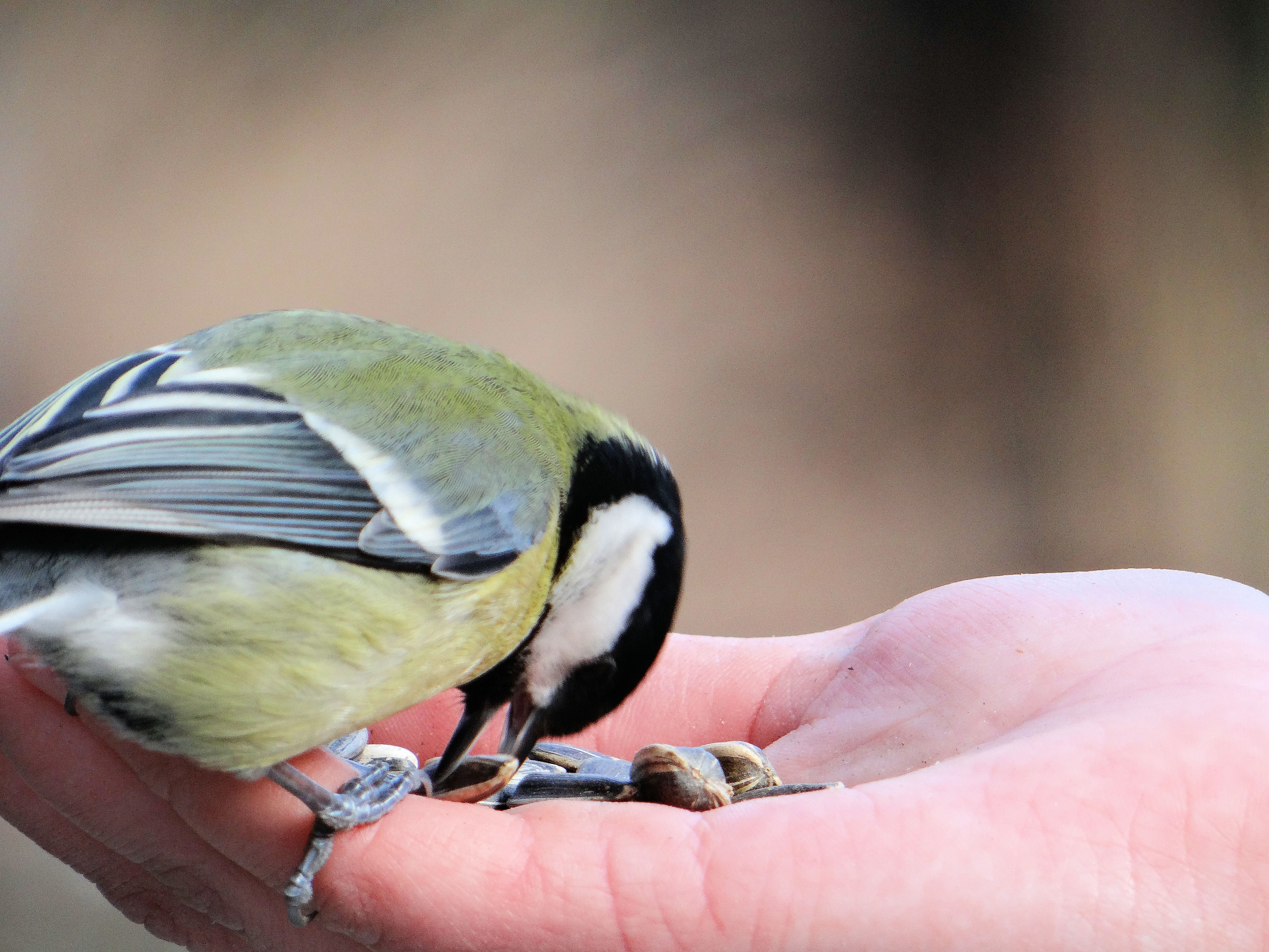 Parus major Feeding